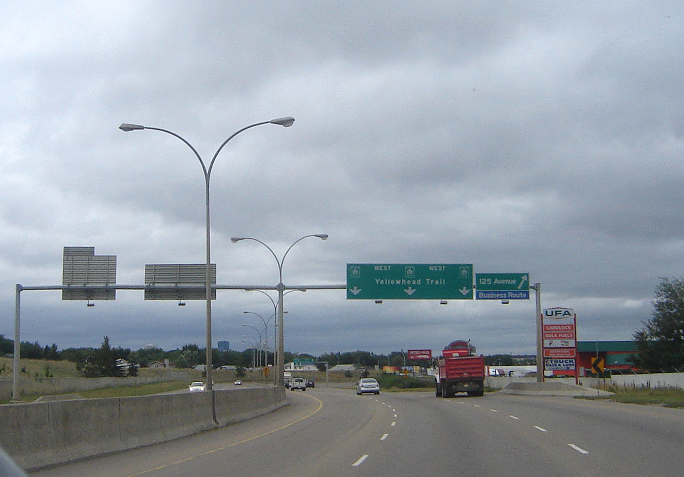 Edmonton, AB Yellowhead Trail sign marker and 125 Ave Business Route, westbound between 50 Street and 66 Street